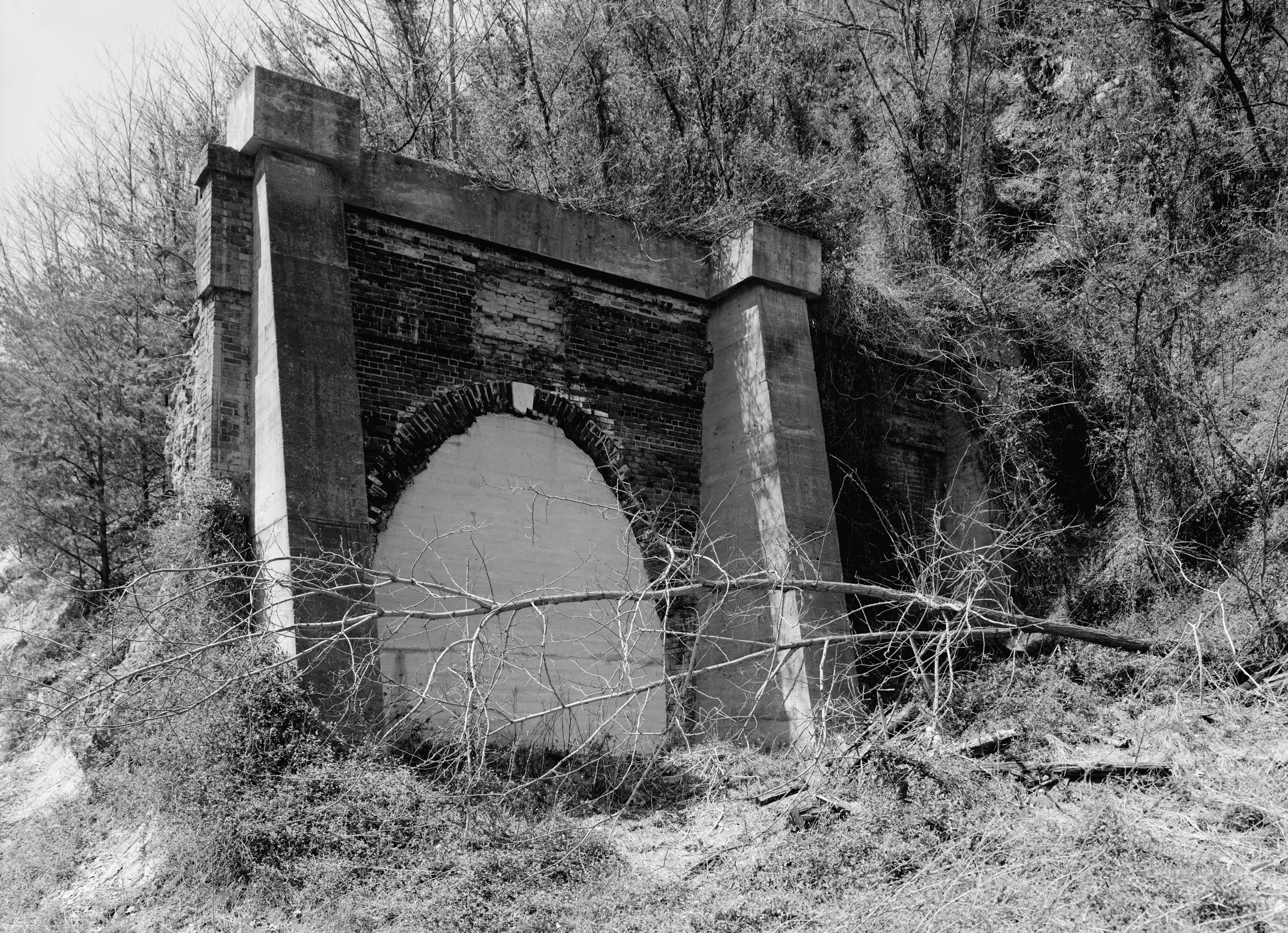 Abandoned Greenwood Tunnel finished in 1853, part of Crozet's Blue Ridge Railroad. Concrete buttresses added at a later date.